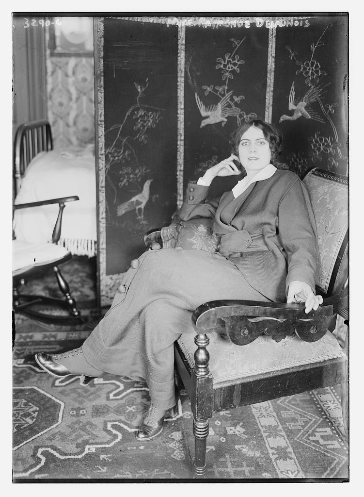 Mrs. Raymonde Delaunois in 1914 Bain News Service,, publisher. Mrs. Raymonde Delaunois [between ca. 1910 and ca. 1915] 1 negative : glass ; 5 x 7 in. or smaller. Notes: Title from unverified data provided by the Bain News Service on the negatives or caption cards. Forms part of: George Grantham Bain Collection (Library of Congress). Format: Glass negatives. Repository: Library of Congress, Prints and Photographs Division, Washington, D.C. 20540 USA, General information about the Bain Collection is available at Persistent URL: Call Number: LC-B2- 3290-6